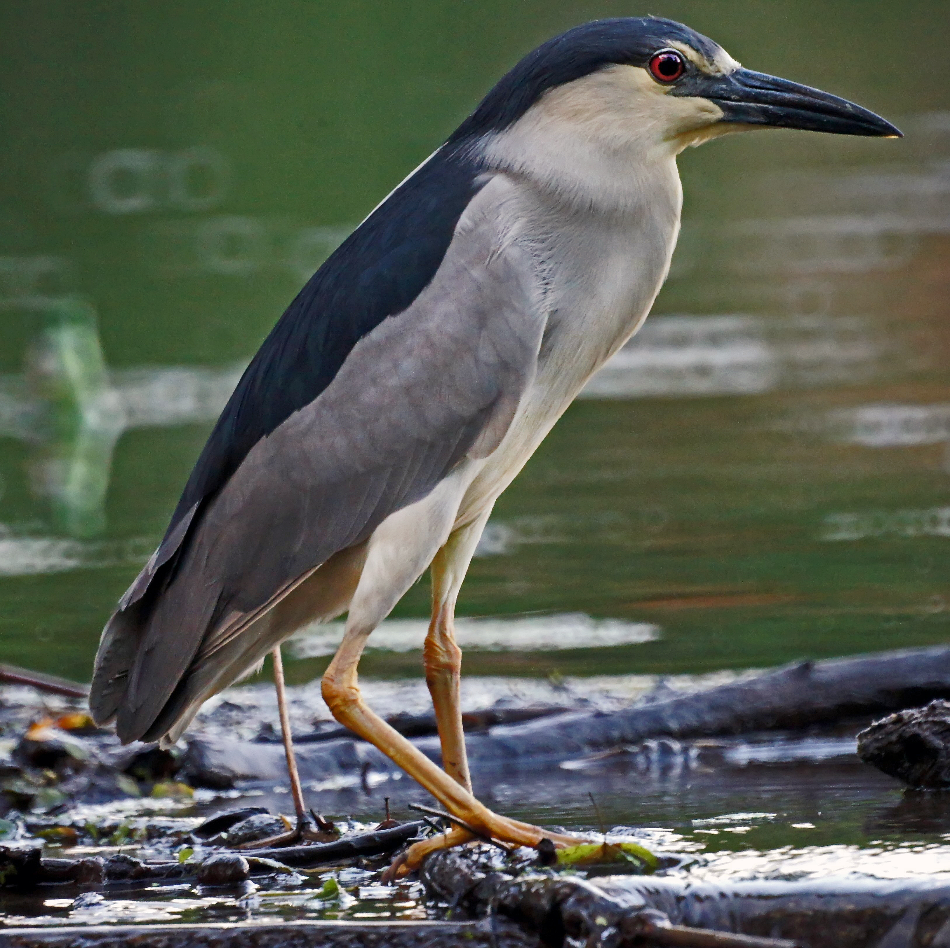 An adult Black-crowned Night Heron in New Jersey, USA.